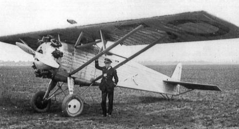 Wibault 72